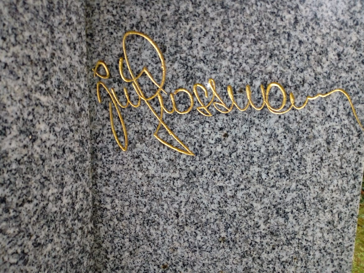 Signature of Jiří Grossmann